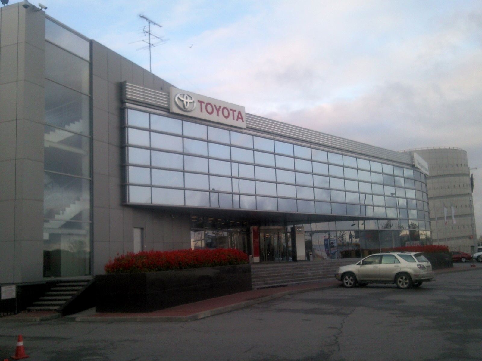 Toyota Centre at Pulkovskoye shosse/Sheremetyevskaya/Vnukovskaya St.